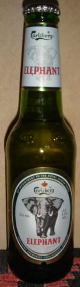 Bottle of Carlsberg Elephant Beer.